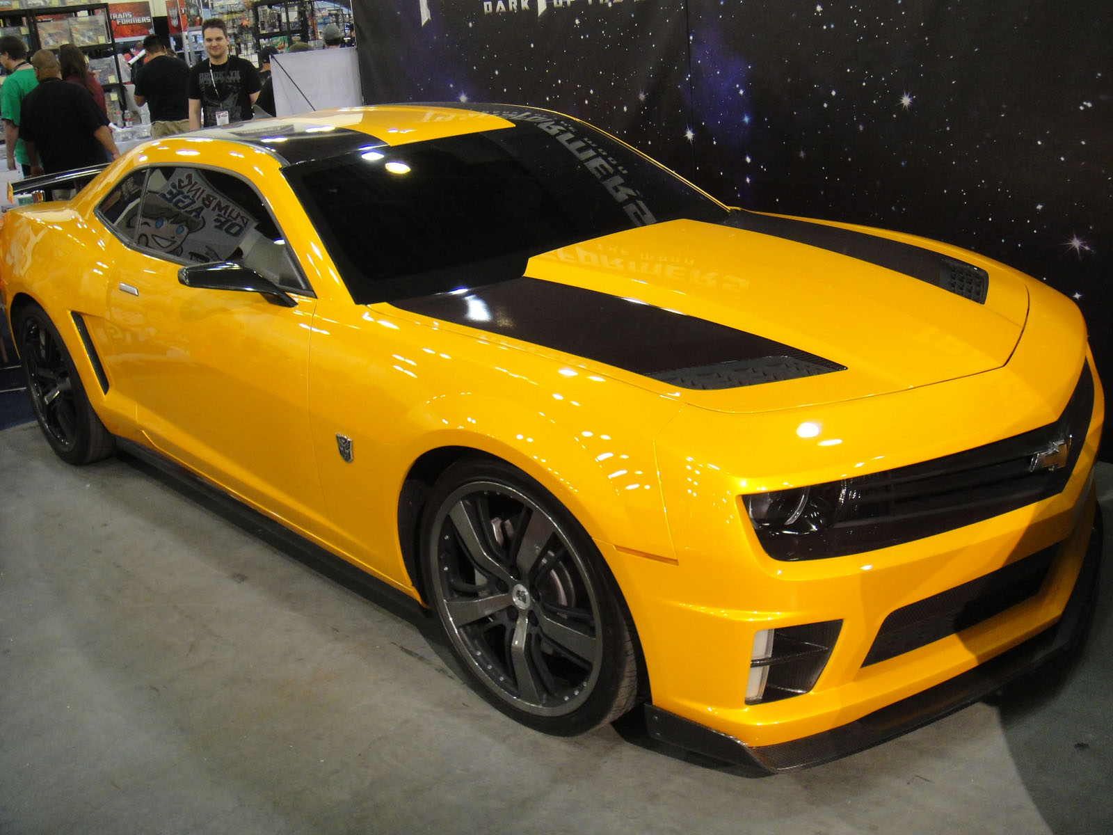 photo © 2011 taken by Doug Kline If you're interested in higher resolution versions of my images, contact me via my profile page.